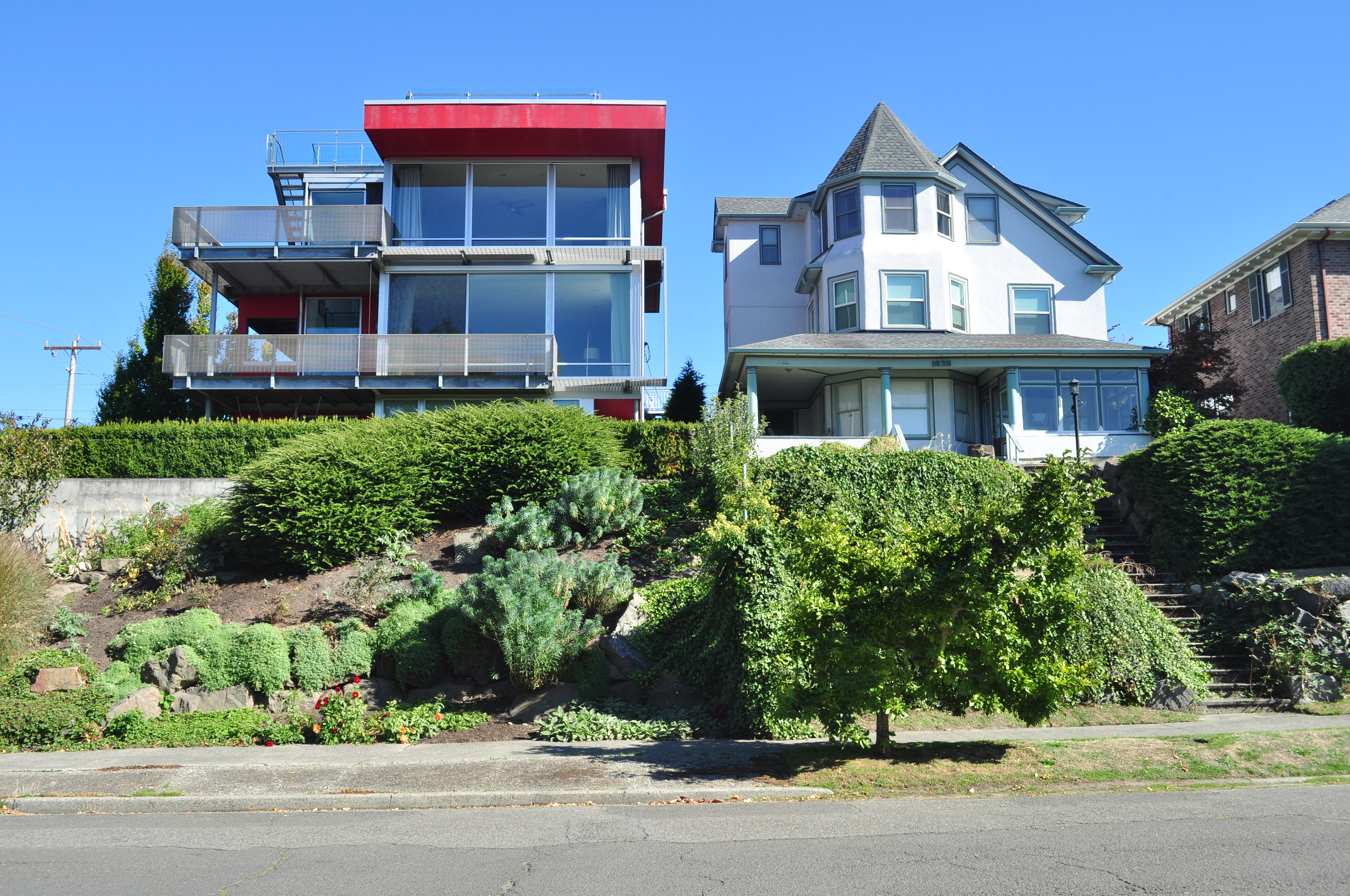 Houses—one modernist, the other from the Victorian or Edwardian era—on 7th Ave W just south of Howe St., Seattle, Washington, U.S. This portion of 7th Ave W is part of Queen Anne Boulevard.